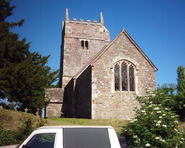 Clannaborough Church. Medieval church (still lit by candles) in a circular churchyard a short way from the main road (Crediton to Okehampton)